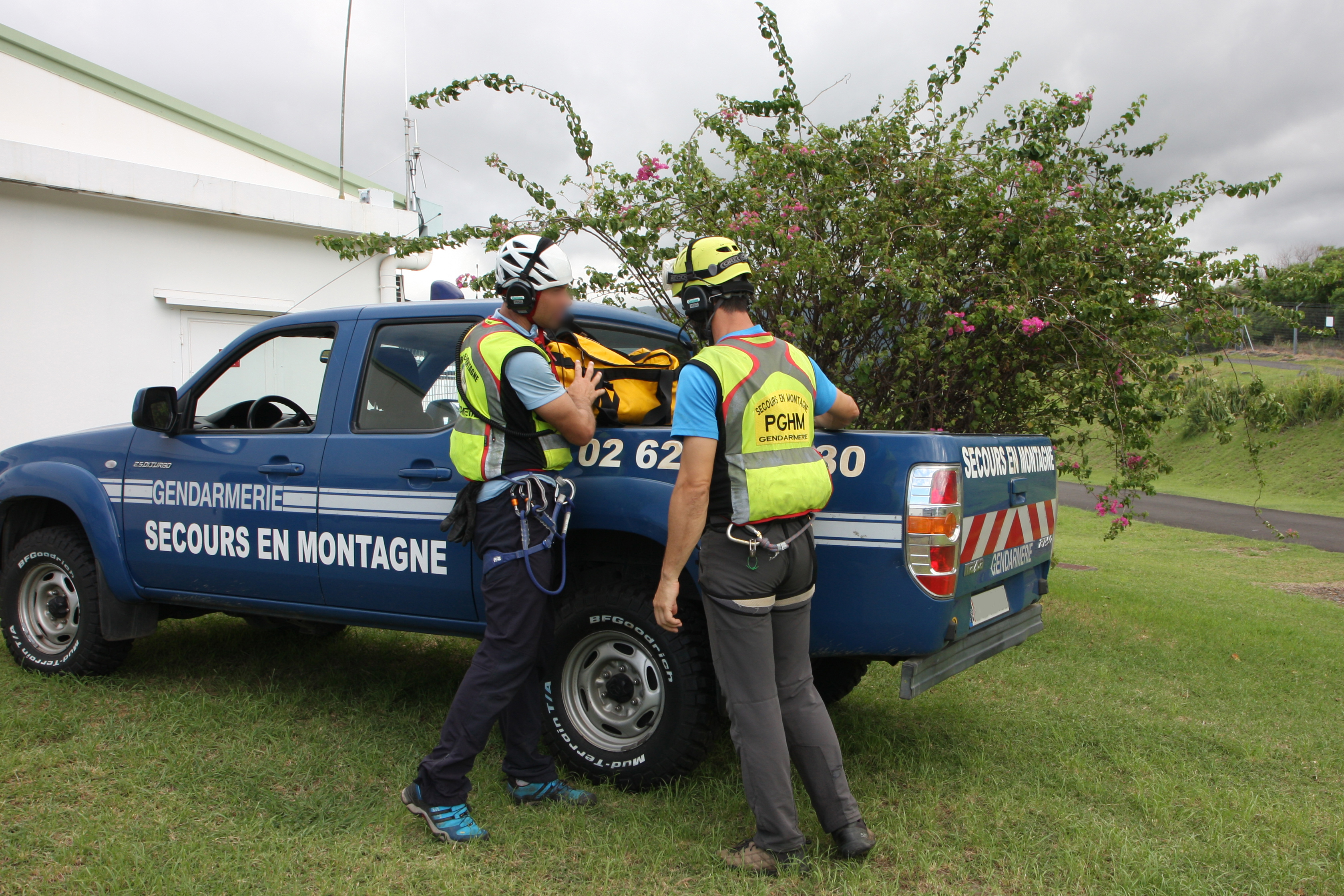 French PGHM gendarmes loading their van at the beginning of a mountain rescue mission. La Réunion